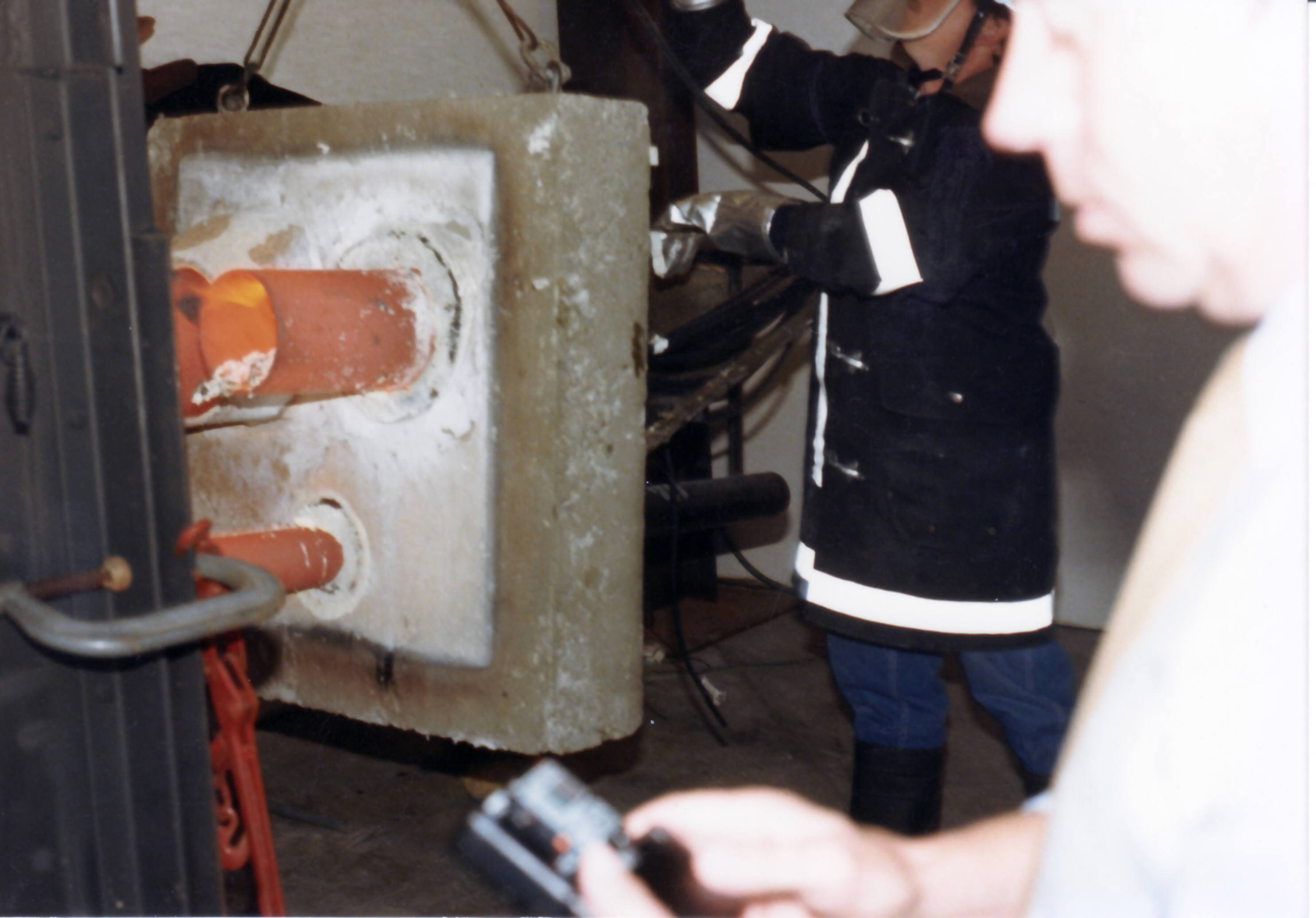 Fire test of firestop in Tulsa, Oklahoma